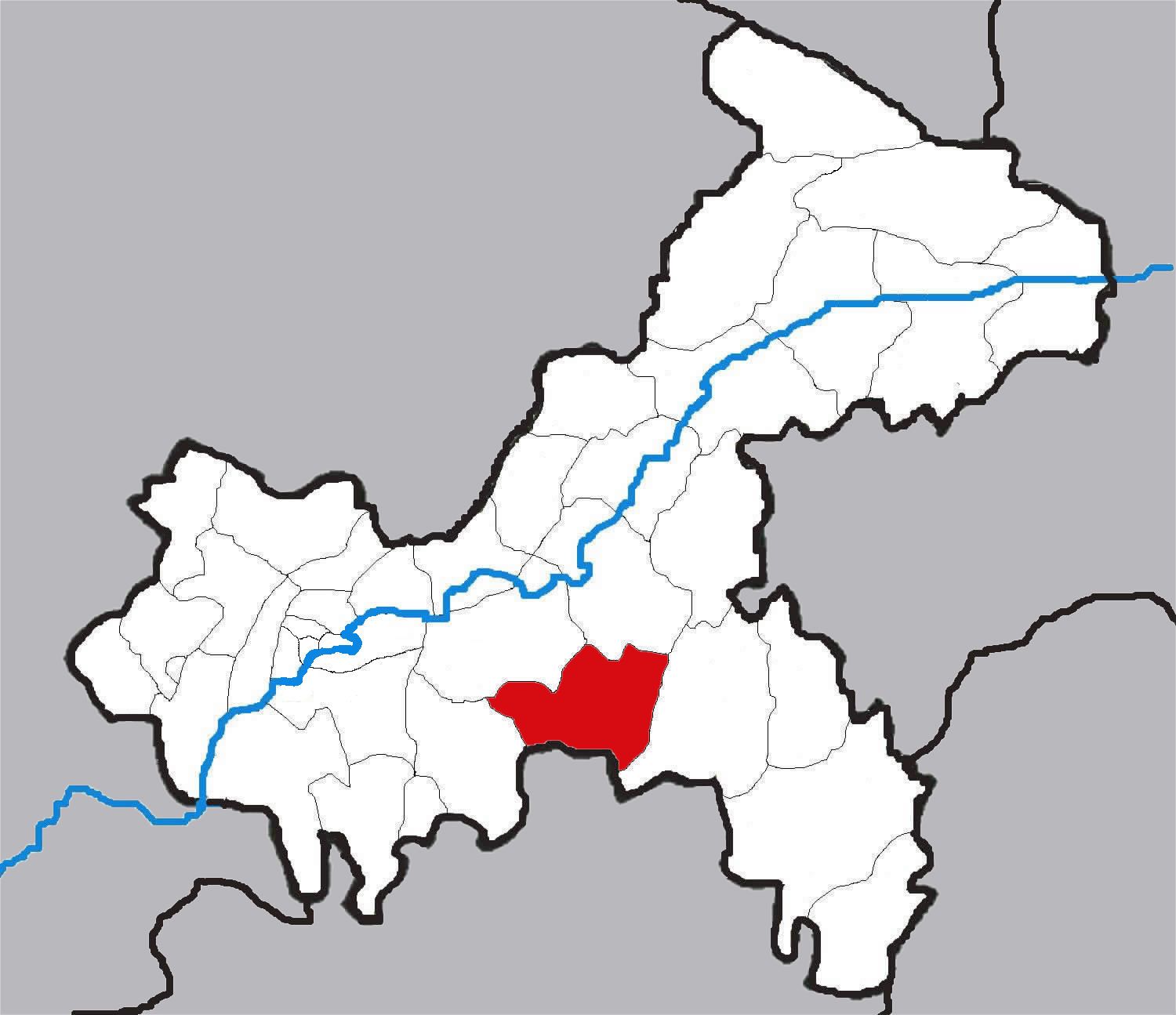 Administration maps of Chongqing, China